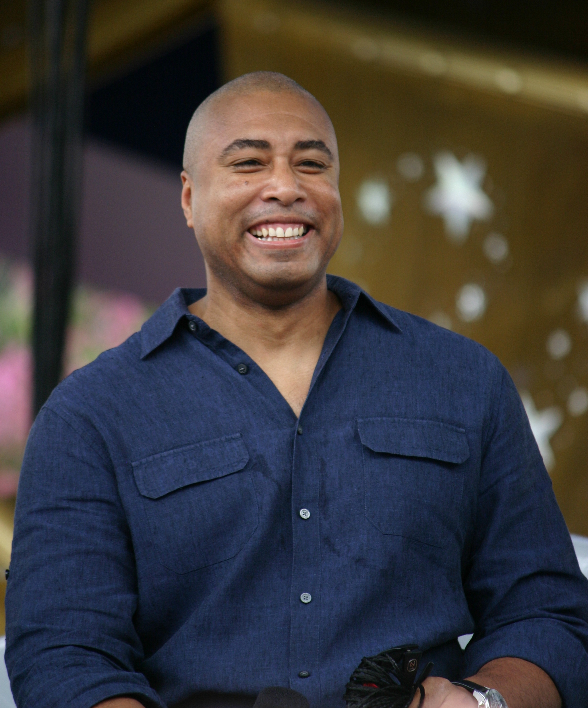 Bernie Williams answering fan questions during an interview at the Sorcerer's Hat Stage on Friday, March 4, 2011 as part of ESPN the Weekend